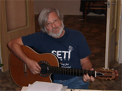 H. Paul Shuch photo